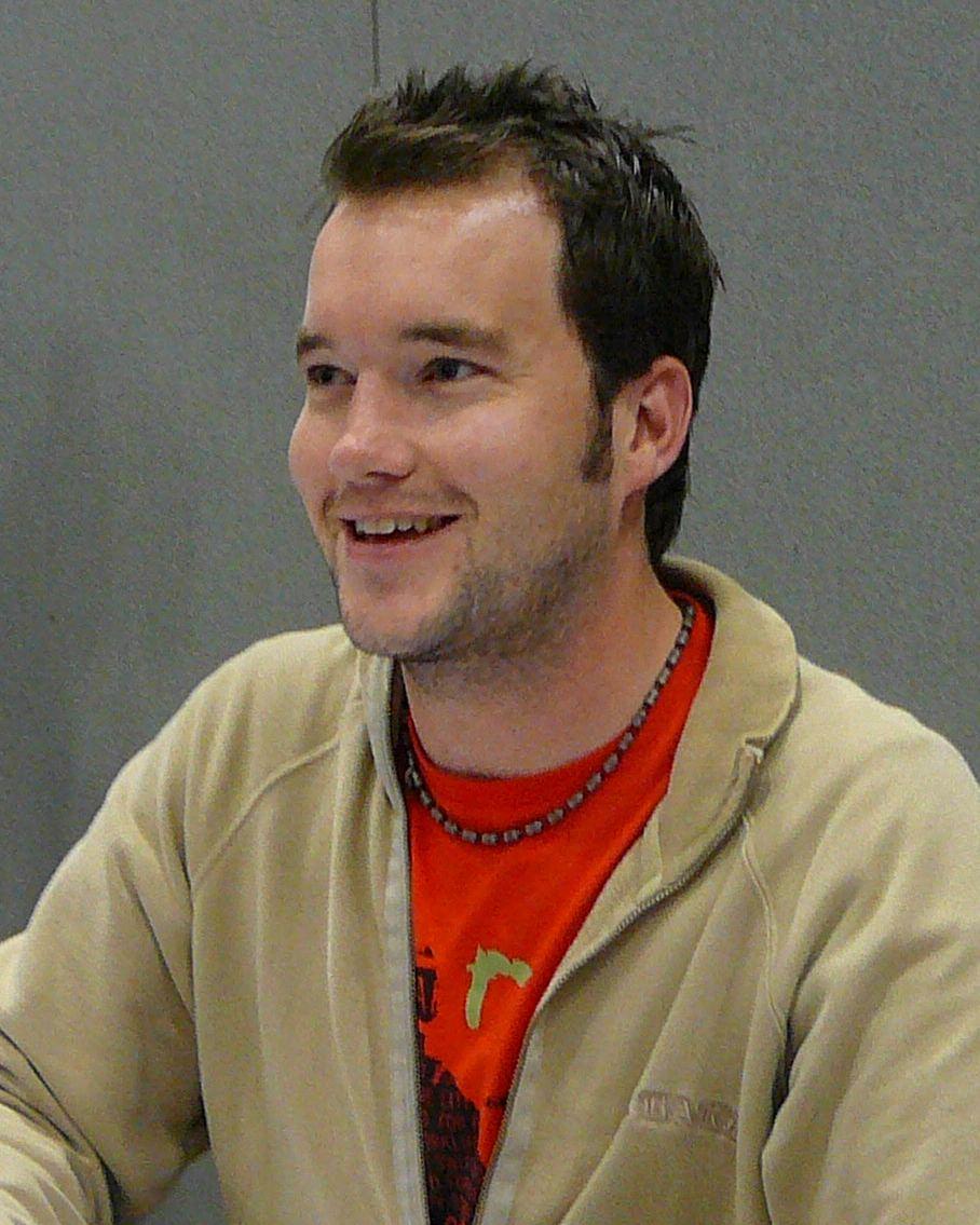 Welsh actor Gareth David-Lloyd, who plays Ianto Jones on the Doctor Who spin-off series Torchwood, at an autograph signing.